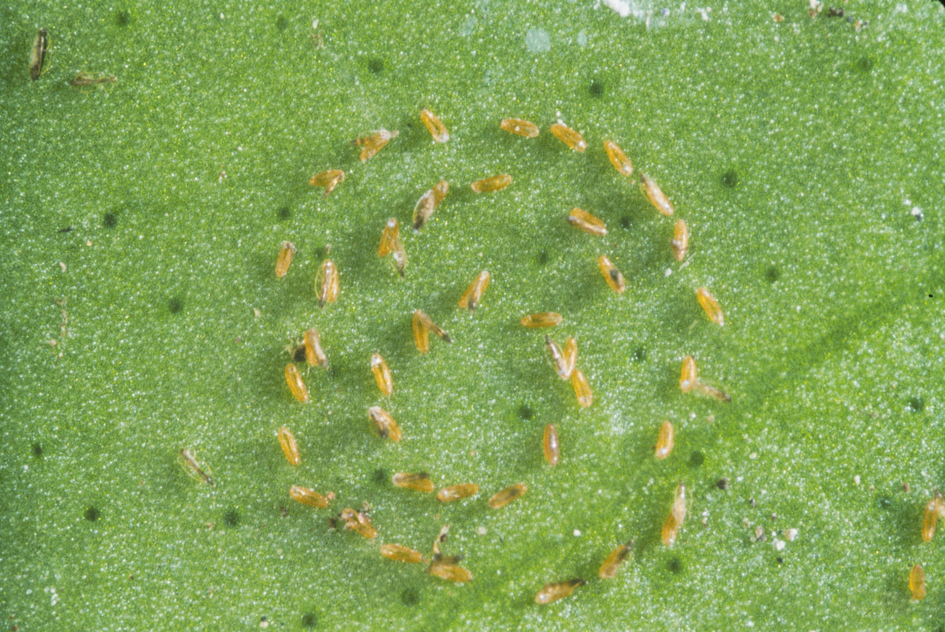 Aleurocanthus woglumi Ashby Common Name: citrus blackfly Photographer: Division of Plant Industry Archive, Florida Department of Agriculture and Consumer Services, United States Contact: Jeffrey W. Lotz, Florida Department of Agriculture and Consumer Services Descriptor: Egg(s) Description: egg spiral Image taken in: Florida, United States